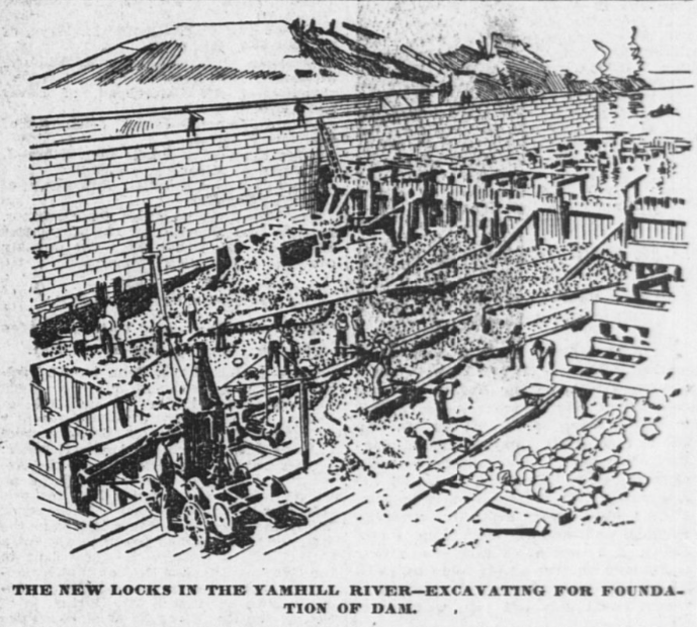 Sketch of construction work on the Yamhill river lock and dam